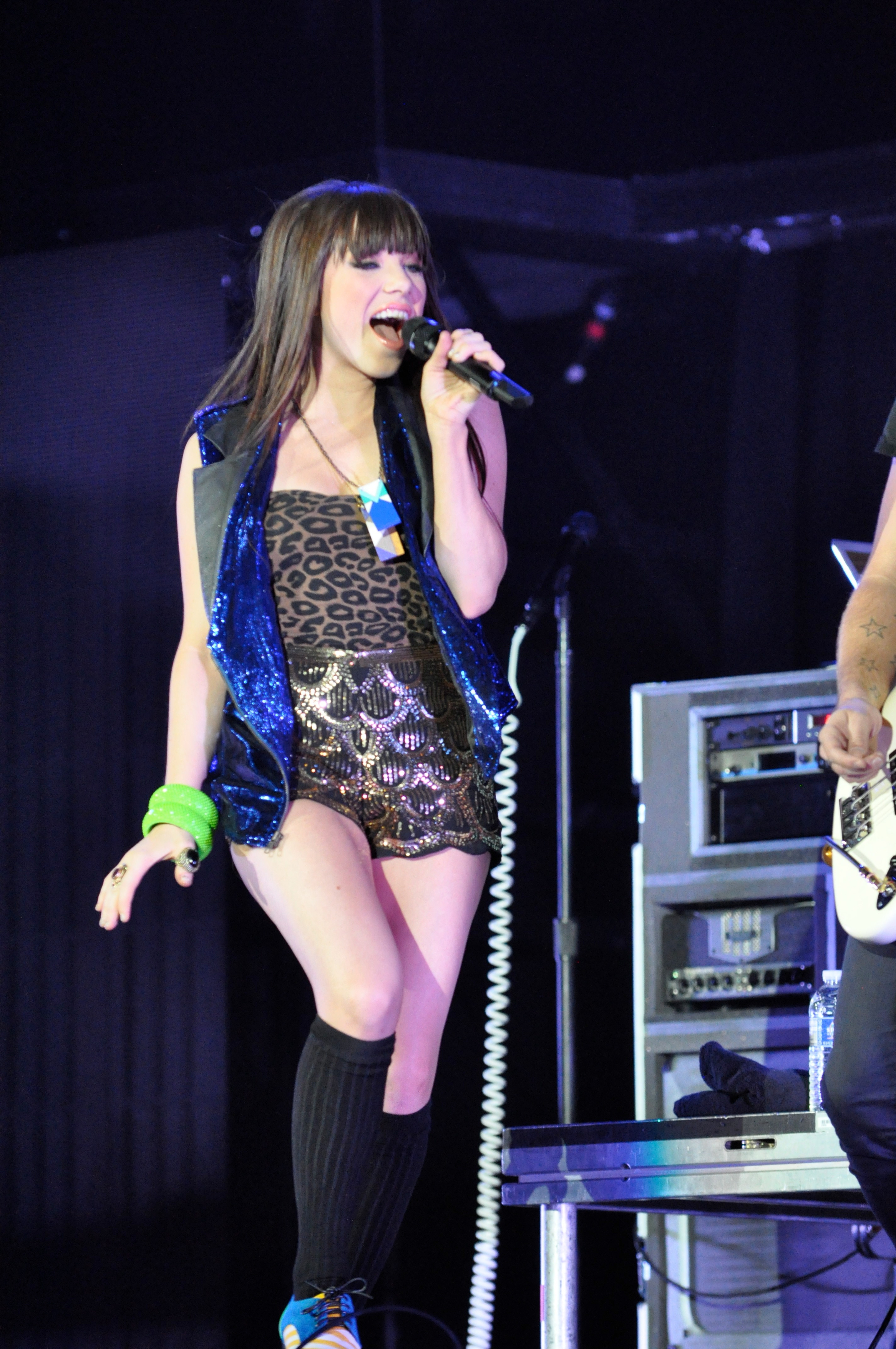 Carly Rae Jepson-DSC_0117-10.20.12